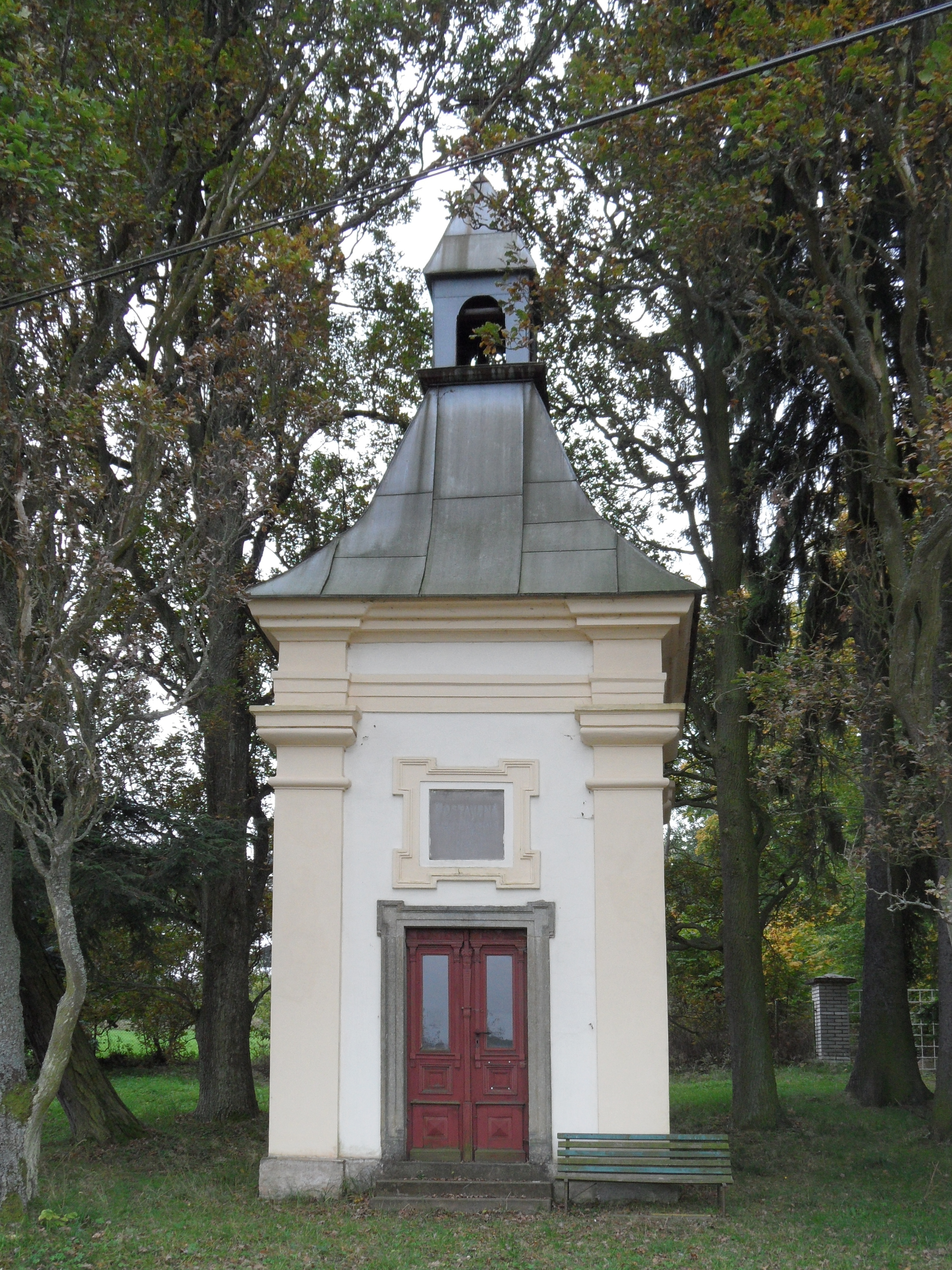 Kamenná Lhota A. Chaple, Kutná Hora District, the Czech Republic.